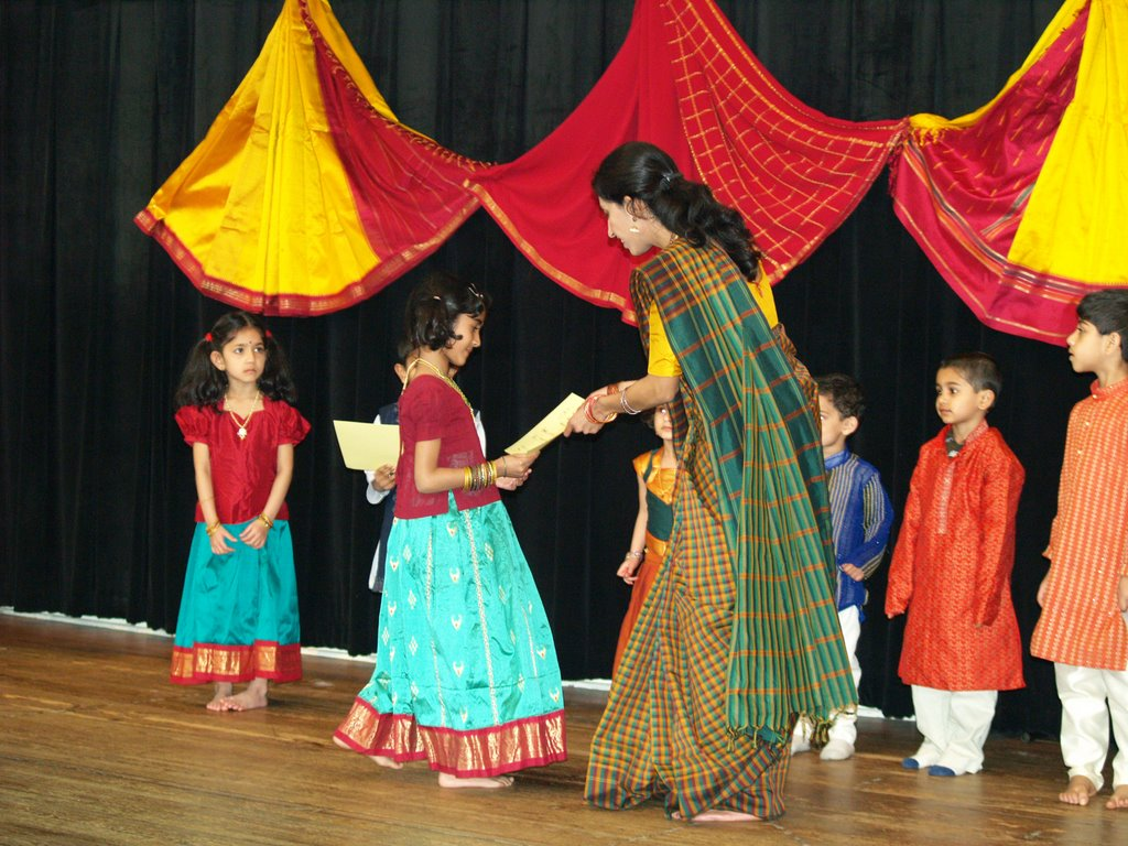 Ugadi celebration in school, mysore.